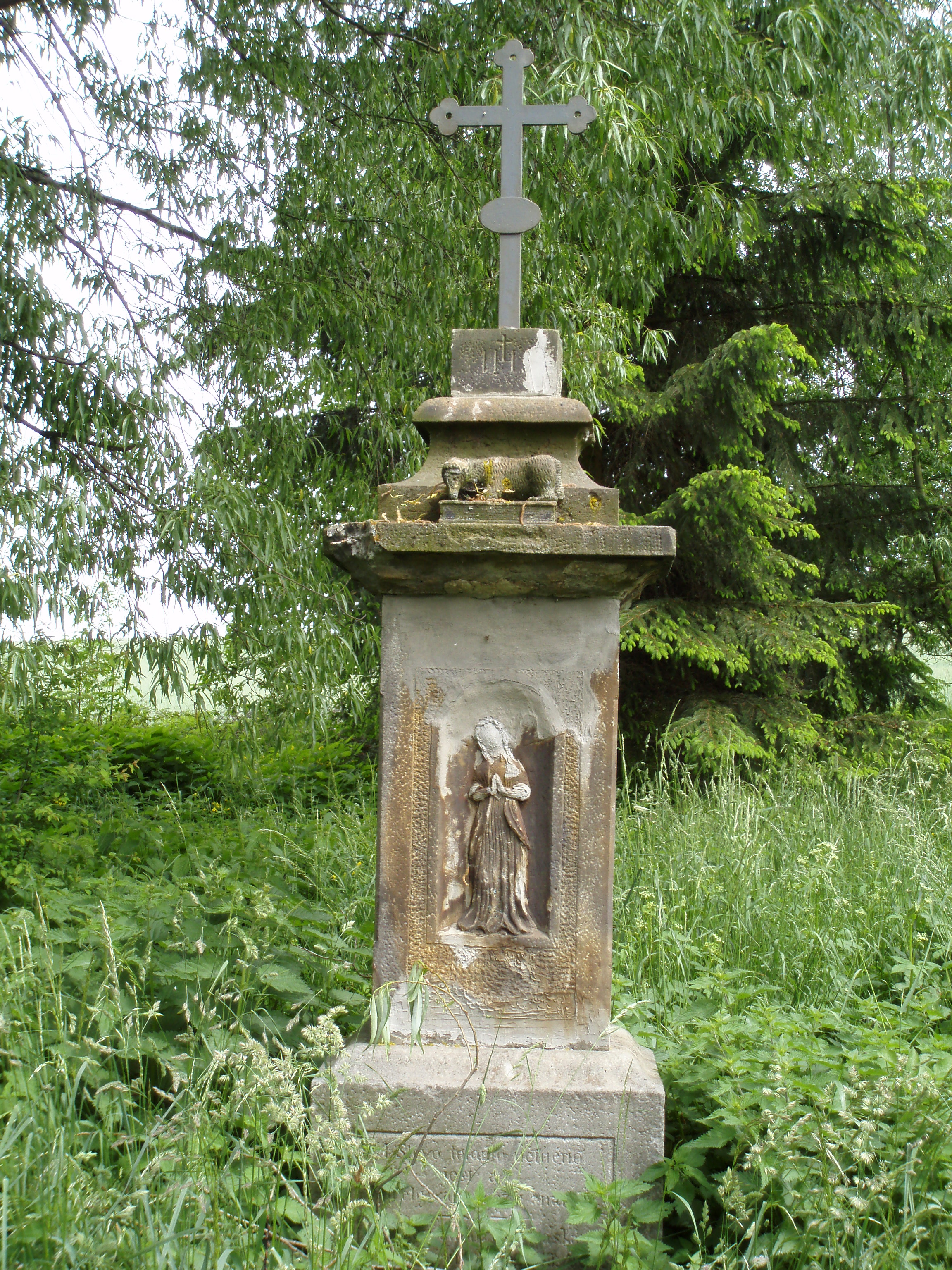 Small Cross in Mezilečí (District of Náchod)